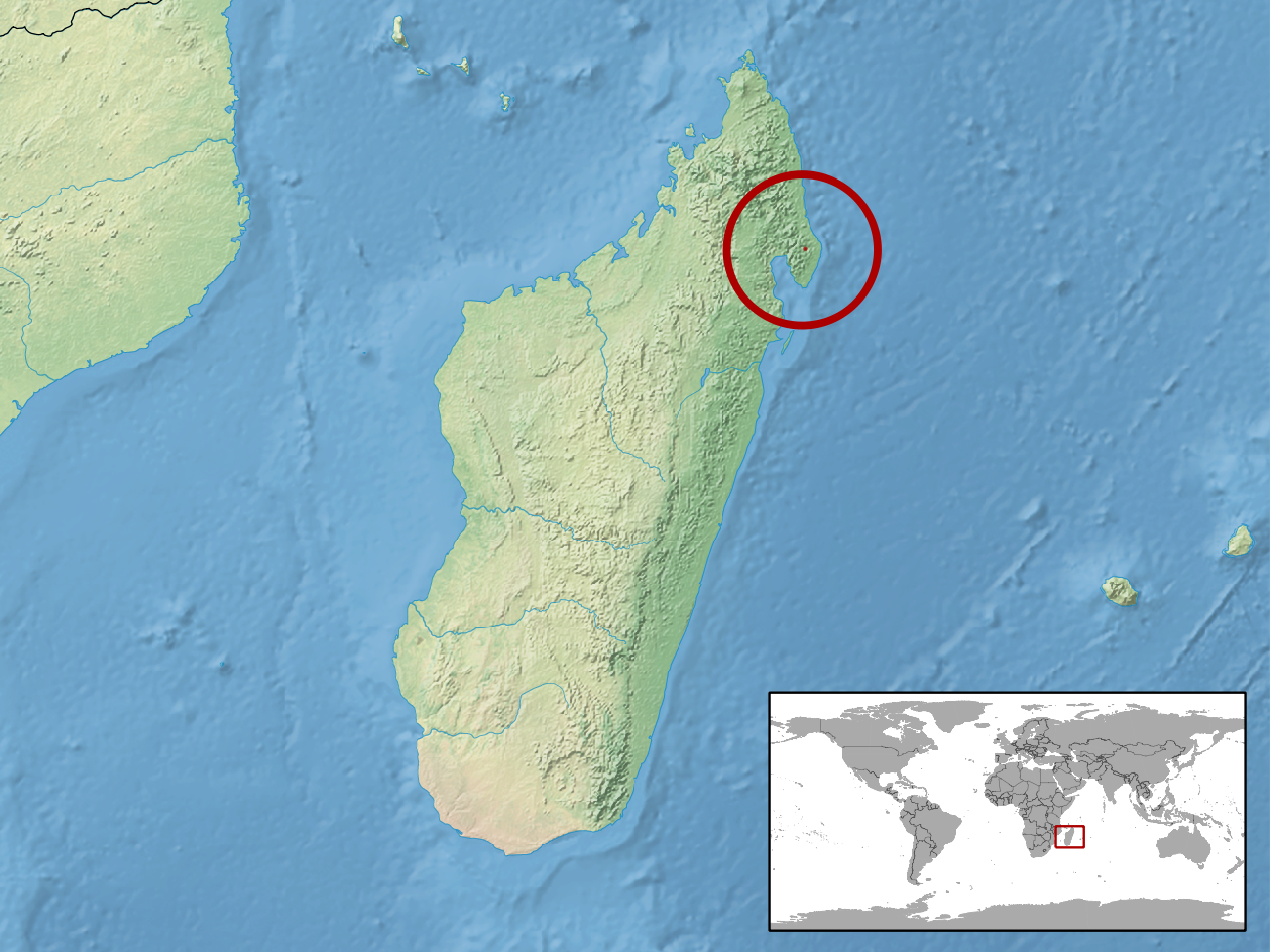 geographic distribution of Amphiglossus mandady